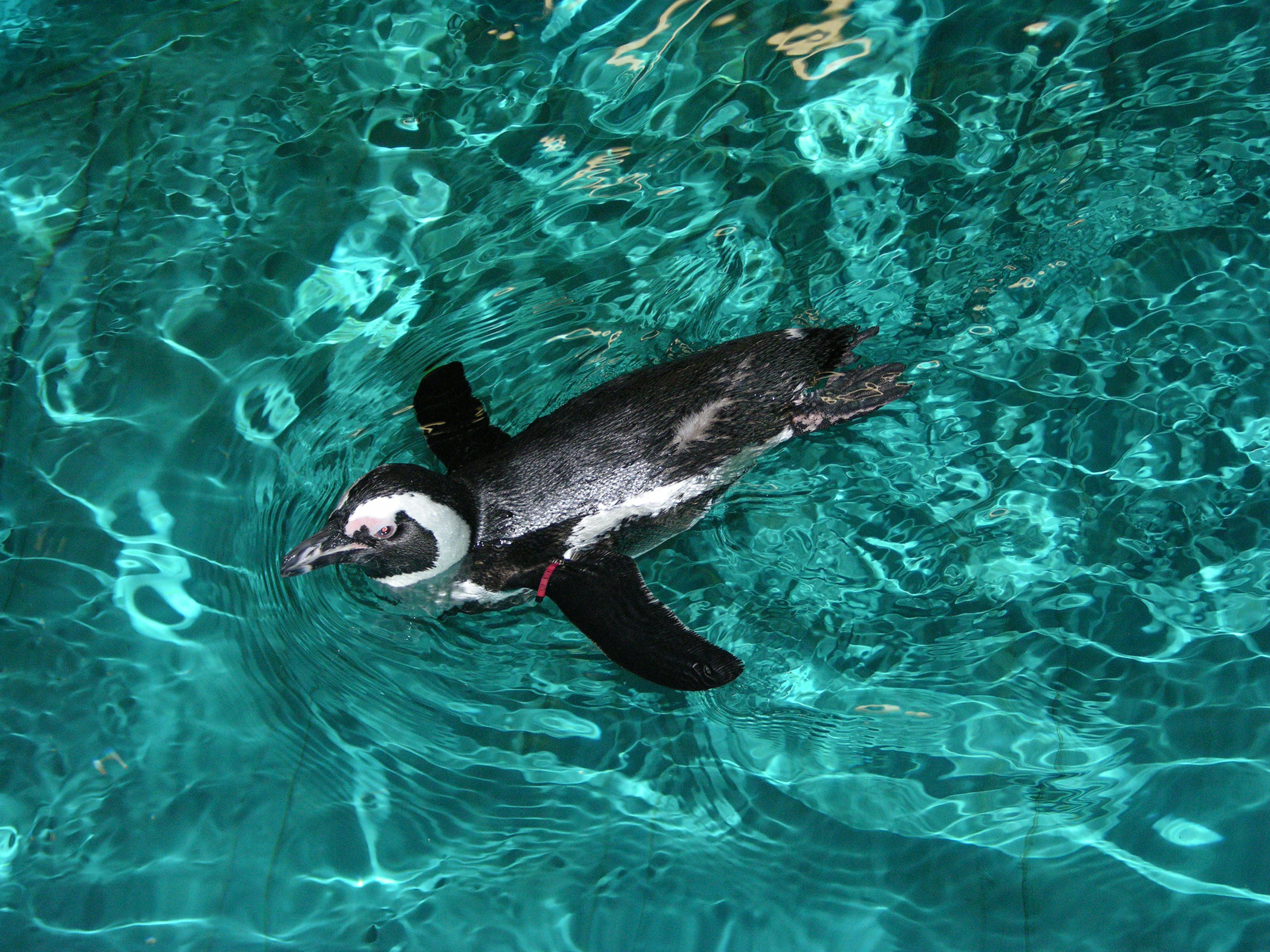 An African penguin swimming in the penguin exhibit at the New England Aquarium in Boston, Massachusetts.